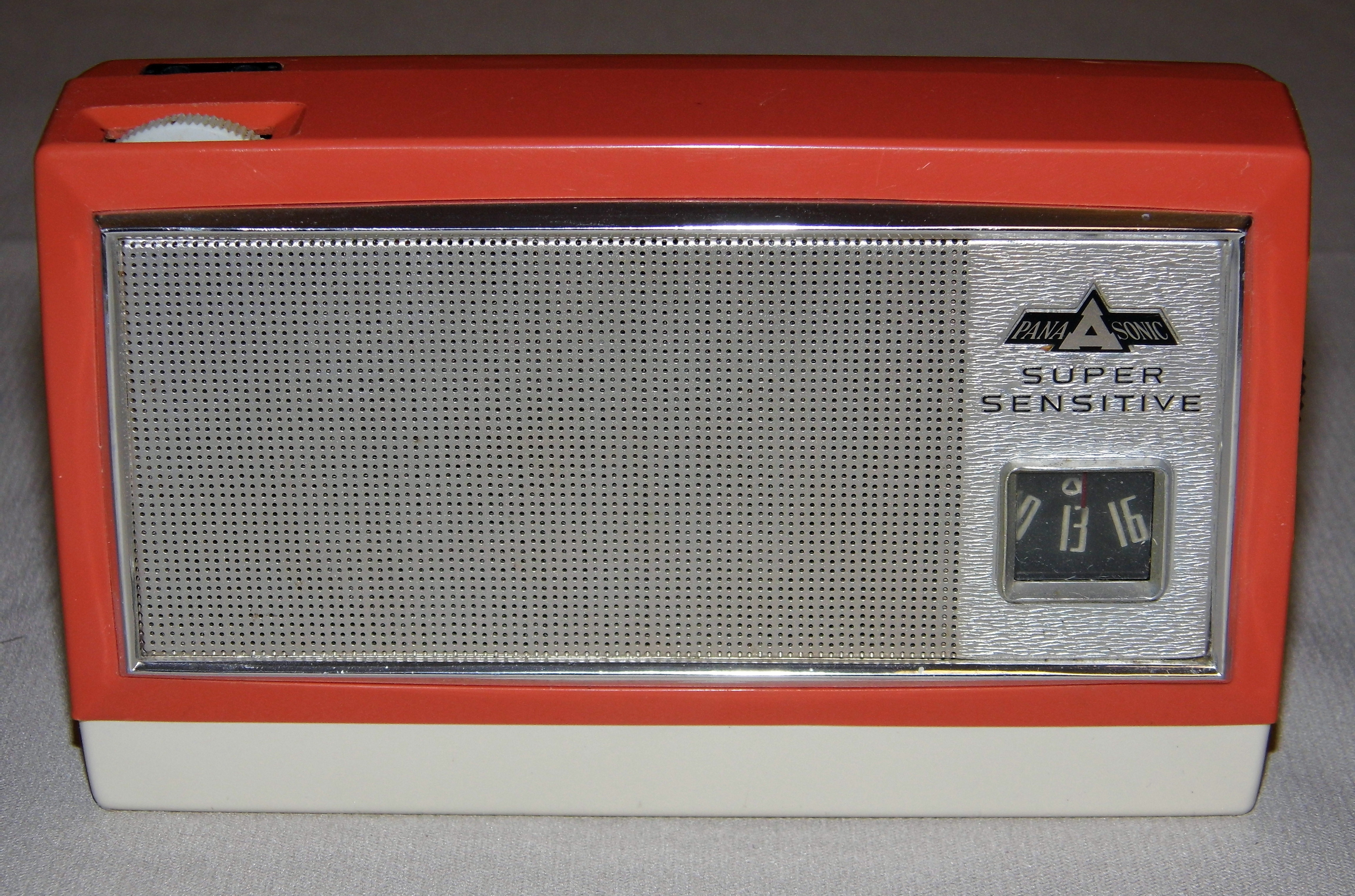 This radio was available in salmon or black plastic. It measures 3-1/2 x 5-3/4 x 1-1/2".